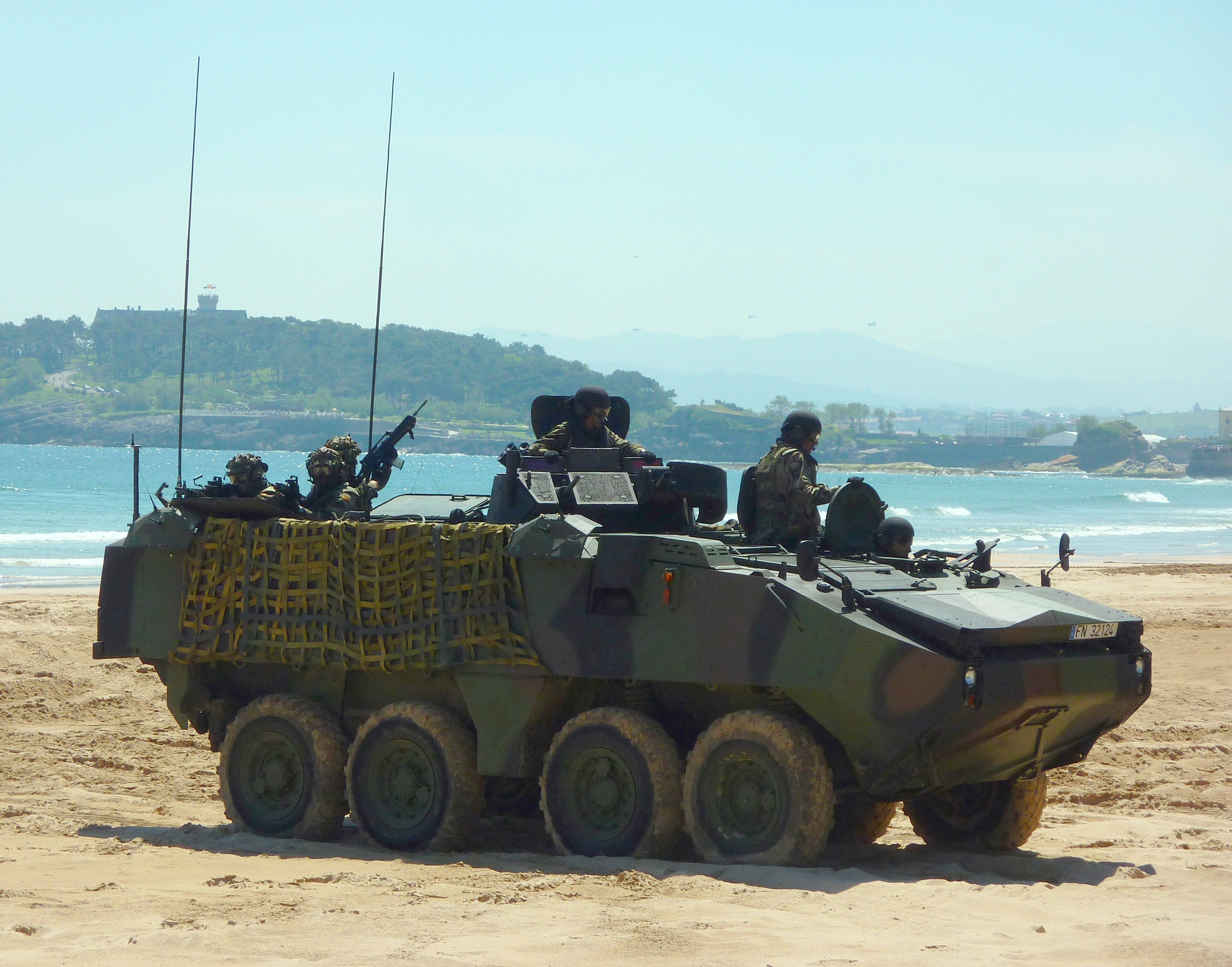 Spanish Marines Mowag Piranha IIIC.